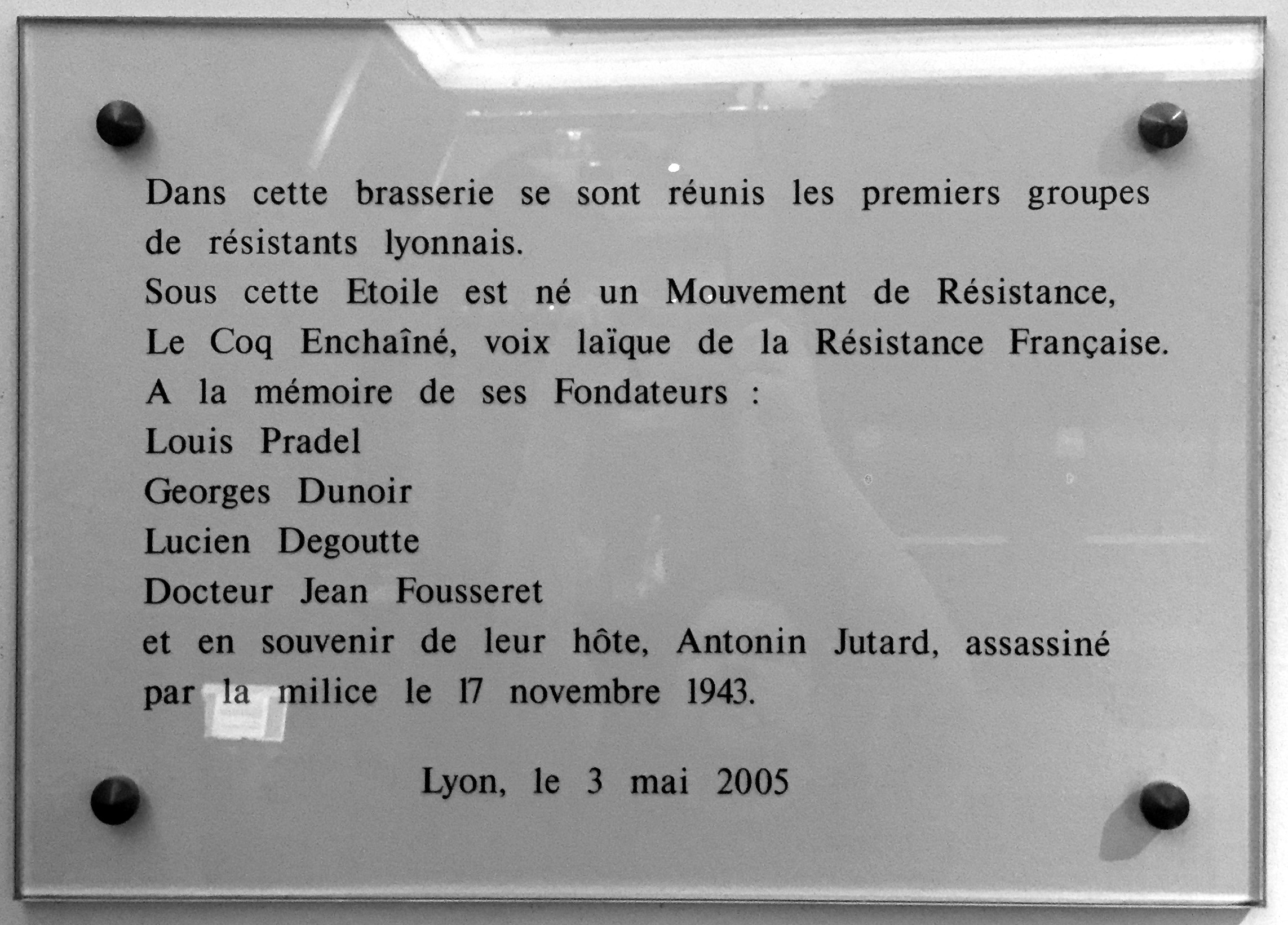 This photograph was taken with an iPhone 6